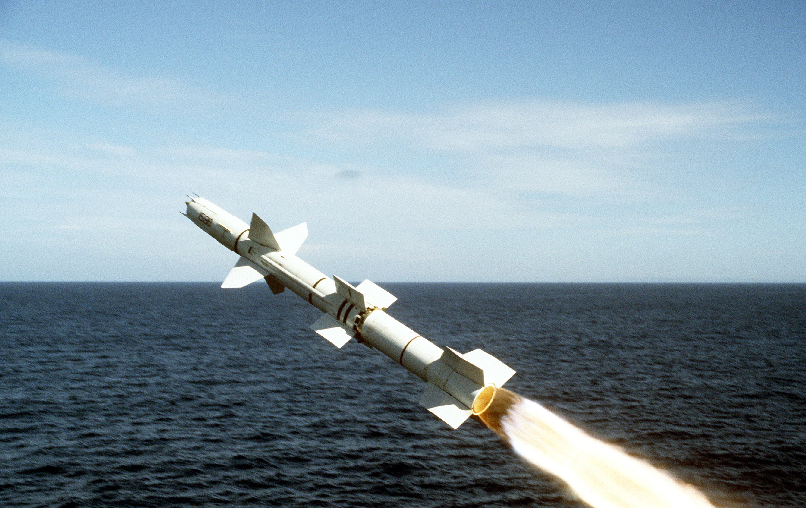 Side view of a Talos surface-to-air missile, just after being fired from the guided missile cruiser USS OKLAHOMA CITY (CG-5).